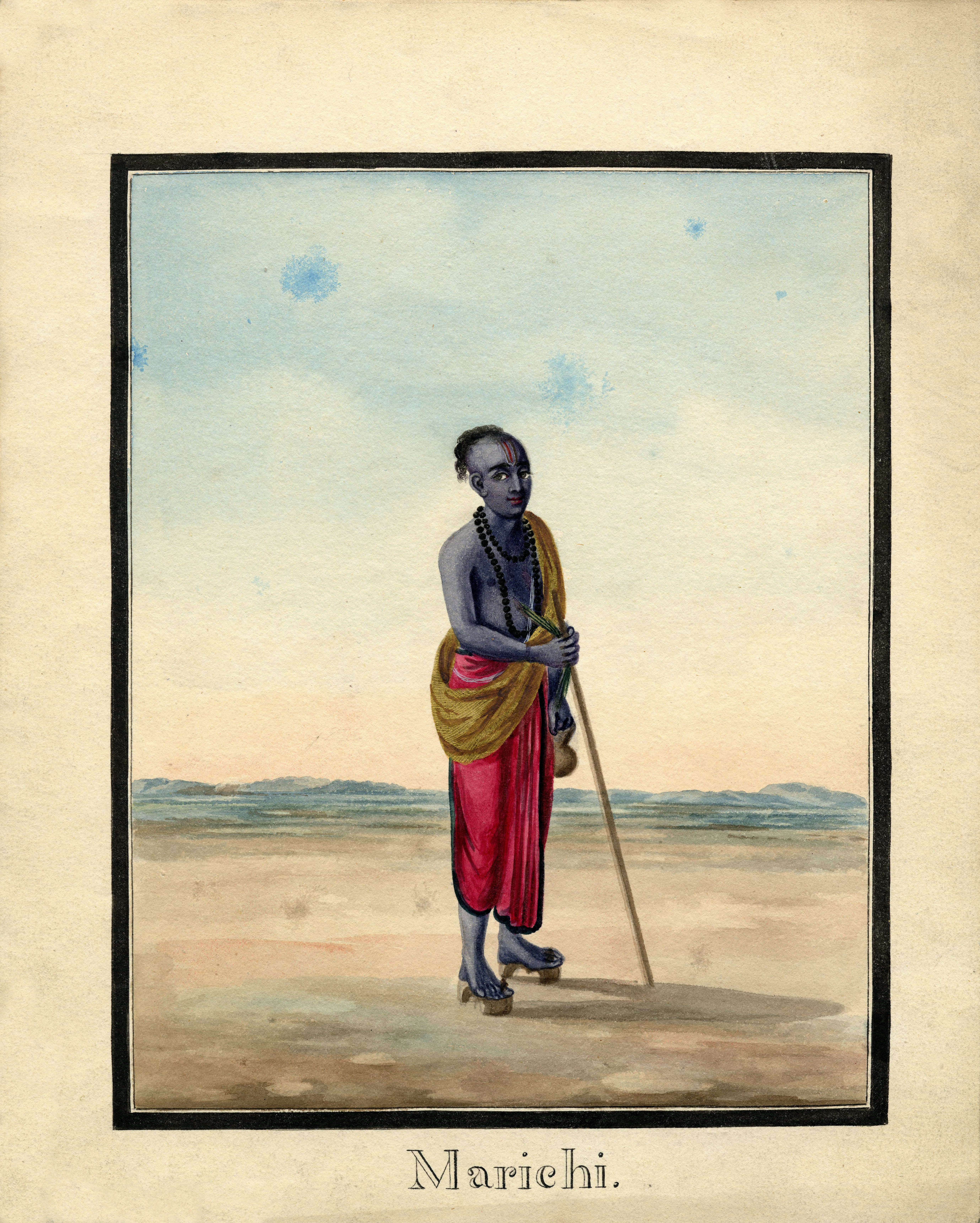 Marichi, a Rishi and son of Brahma. He is shown standing in a flat landscape. He wears a red dhoti with a gold shawl tied over his chest. He wears wooden sandals and holds a walking stick in his right hand. In his left hand he holds a pot. A long string of beads hangs around his neck and his head is shaved except for a tuft at the back. The painting is surrounded by a black border.